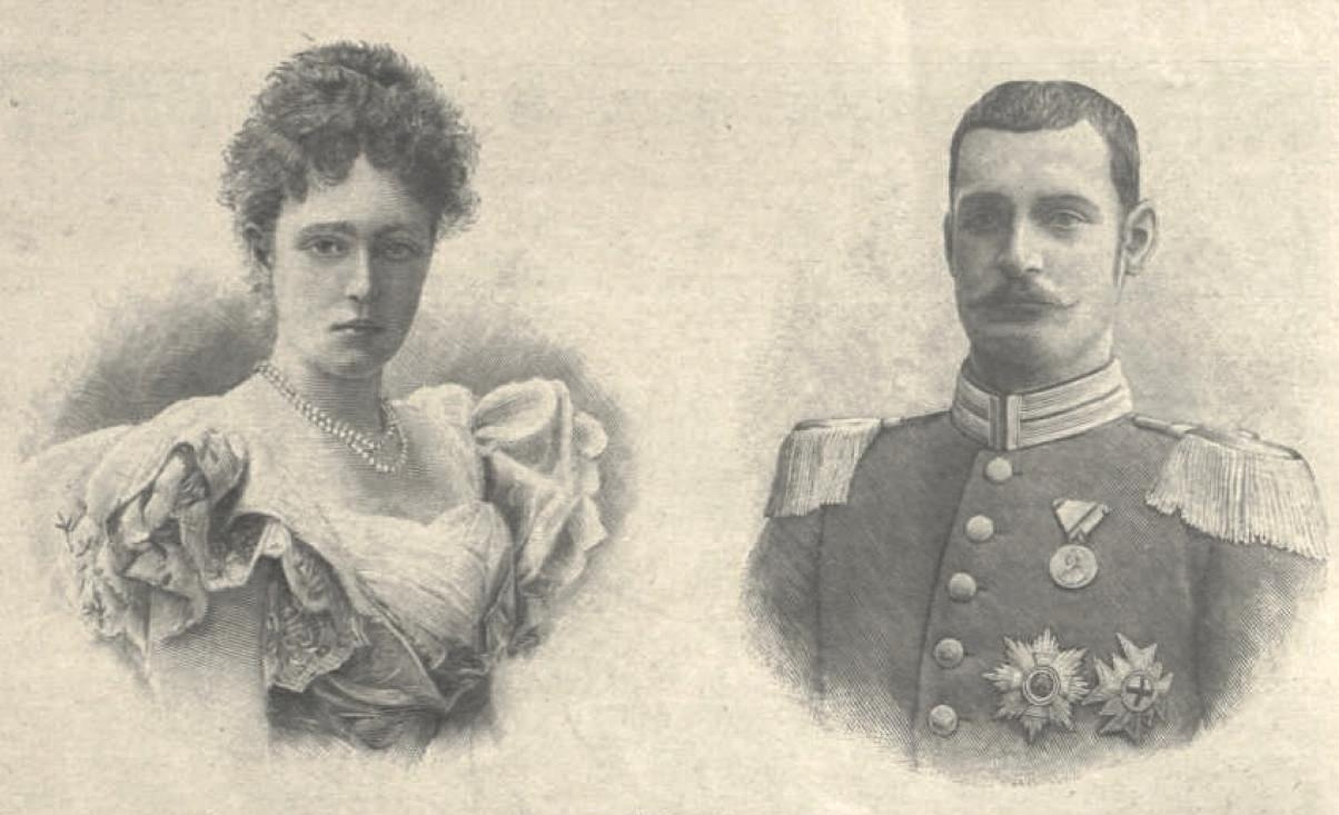 Rupprecht, Crown Prince of Bavaria and Duchess Marie Gabrielle in Bavaria